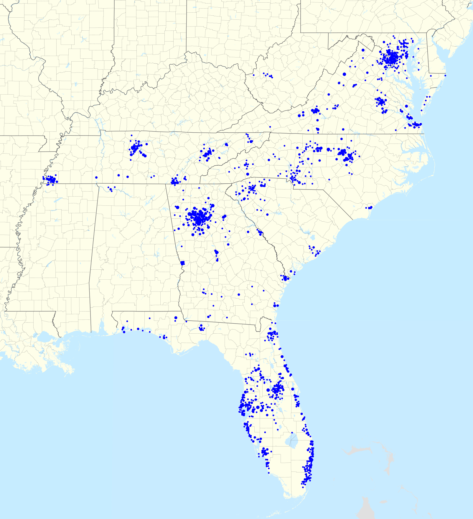 Footprint of SunTrust branches within the United States. ZIP codes with more than one branch have progressively larger points.